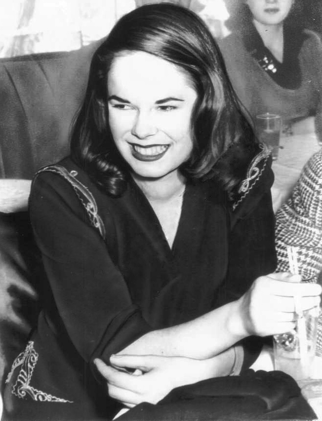 Candid press photo of Oona O'Neill taken in Santa Barbara, California.